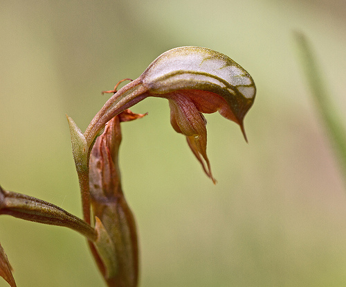 Pterostylis rufa growing on the Southern Downs of Queensland